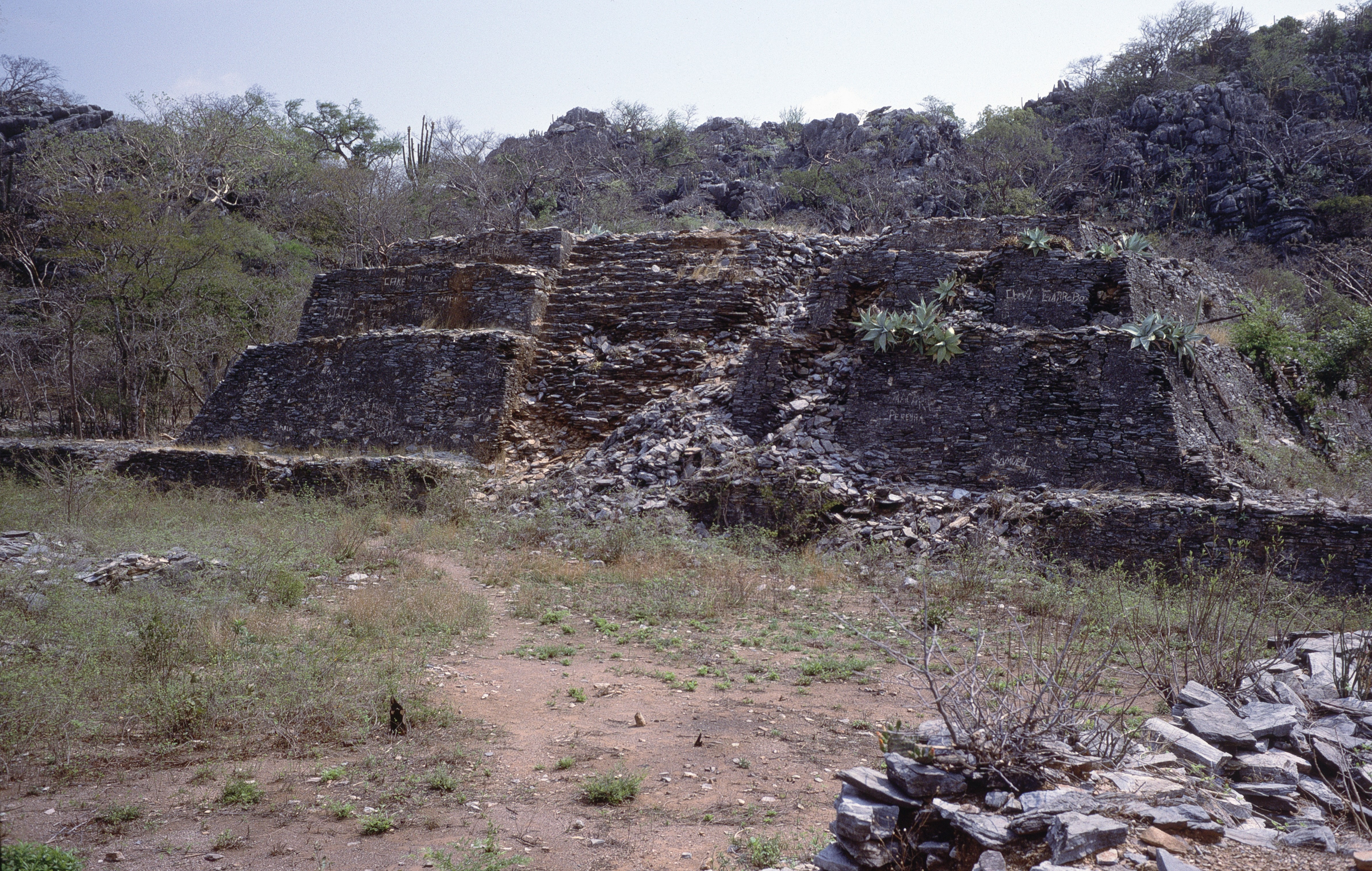 Guiengola, Oaxaca, Mexico: East Pyramid